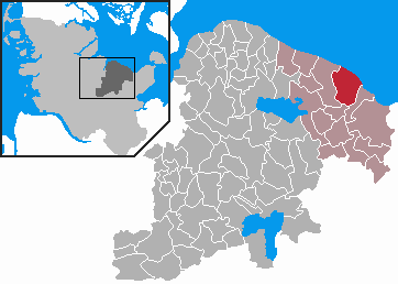 This map shows the area of the Gemeinde (municipality) Behrensdorf in the Kreis (district) Plön, Schleswig-Holstein, Germany.